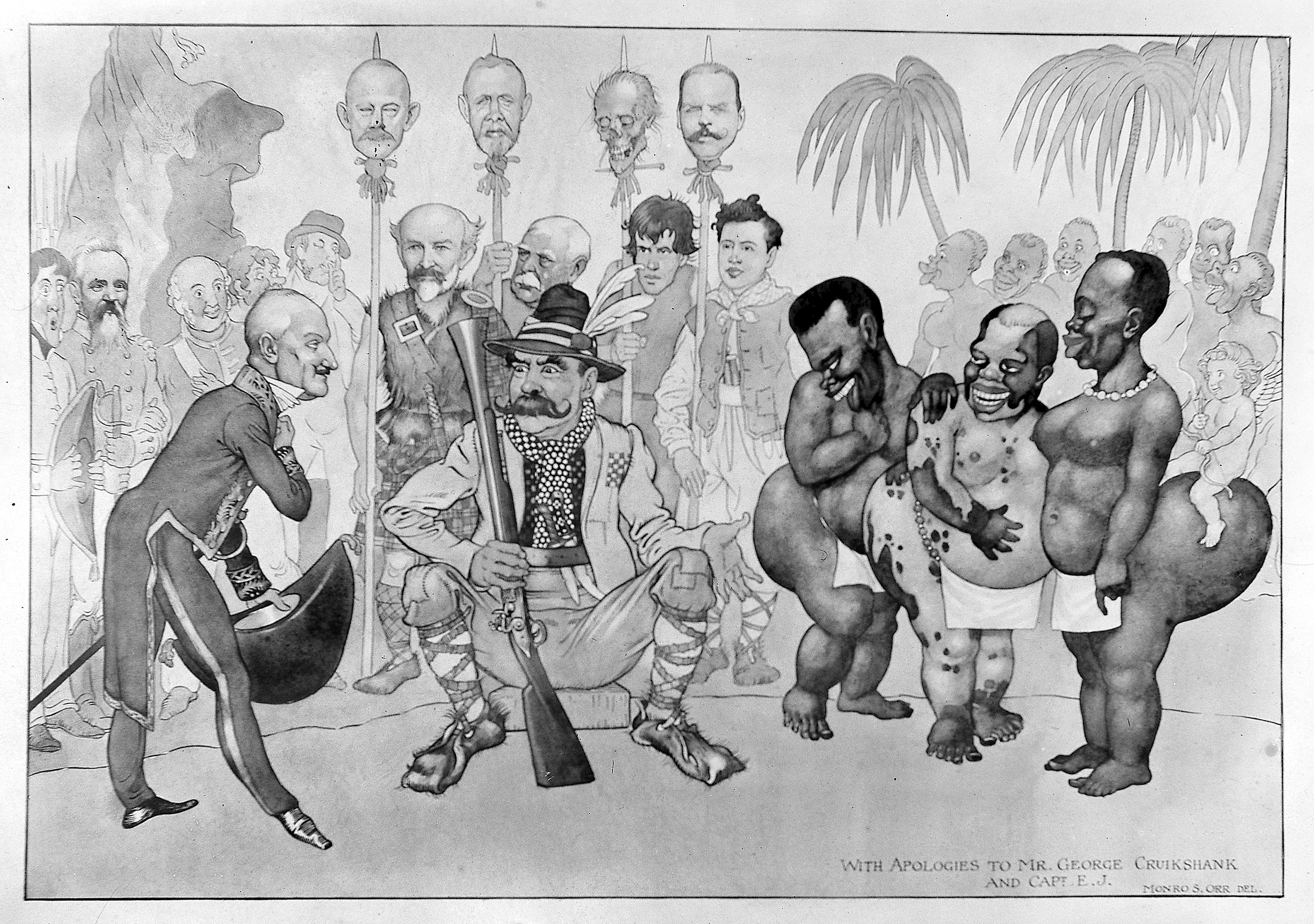 A hunter offering a French gentleman three 'hottentot' (steatopygous) women; representing L. Sambon and R. Blanchard at an Anglo-French tropical medicine conference. Reproduction of a drawing by M.S. Orr, 1913. The composition by M.S. Orr is based on that of a caricature by Cruikshank, "Puzzled which to choose!! or, the King of Tombuctoo offering one of his daughters in marriage to Capt." (British Museum, Catalogue of satires, no. 13043). In the original, the seated central figure is the King of Timbuktu, and the bowing guest is Captain Francis Lyon (1795-1832), the leader of an expidition to northern Central Africa. More information at the above link. Orr adapted the drawing so the seated central figure is Louis Sambon and the bowing guest is Raphael Blanchard. The central woman is piebald in reference to Blanchard's writings on "nègres pies" (partial albinos); the Union Jack on the left is replaced by the French tricolore; and the king's bodyguard holding skulls on spears are replaced by portraits of students and professors of tropical medicine: left to right, Cantlie with the head of Christophers, (The head identified as Cantlie could be J.W.S. MacFie.) Manson with the head of possibly Sir William Macgregor, William Orr with the head of R.T. Leiper, and William's cousin James Gilchrist with the head of Ronald Ross. The head of a man on the far left standing below the French flag is also a portrait, of an unidentified Frenchman